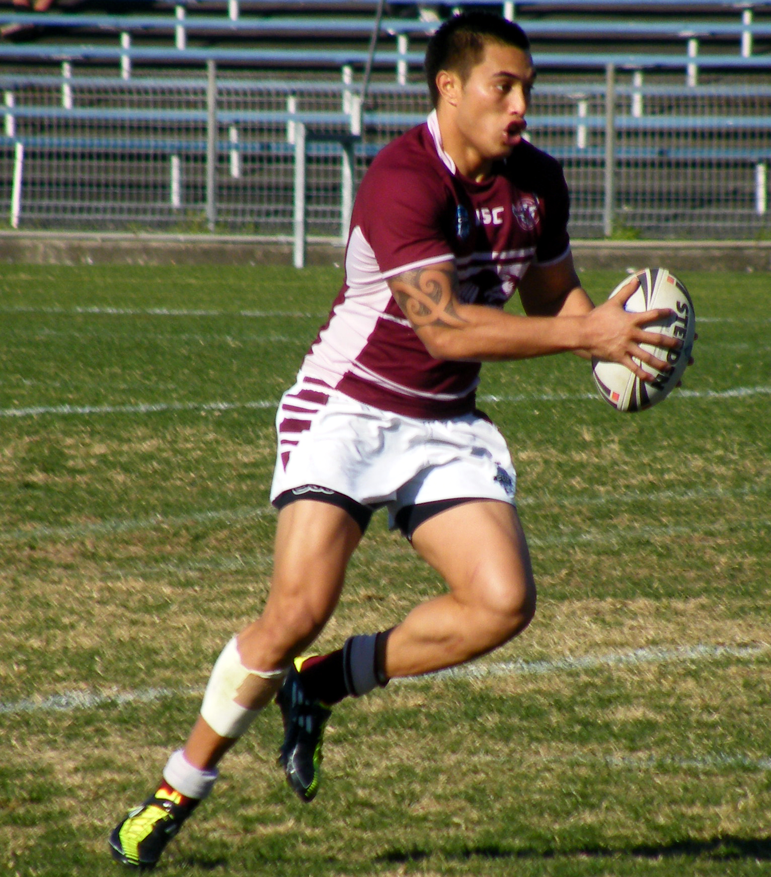 Dean Whare